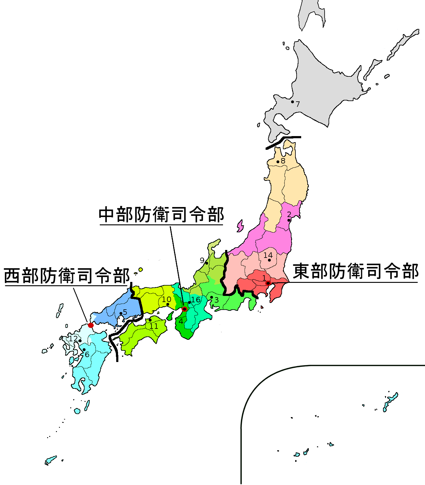 Three Defense HQ's of Japanese Army 1937 - 1940. Its locations and the region borders. Color and numbers show the divisional regions.